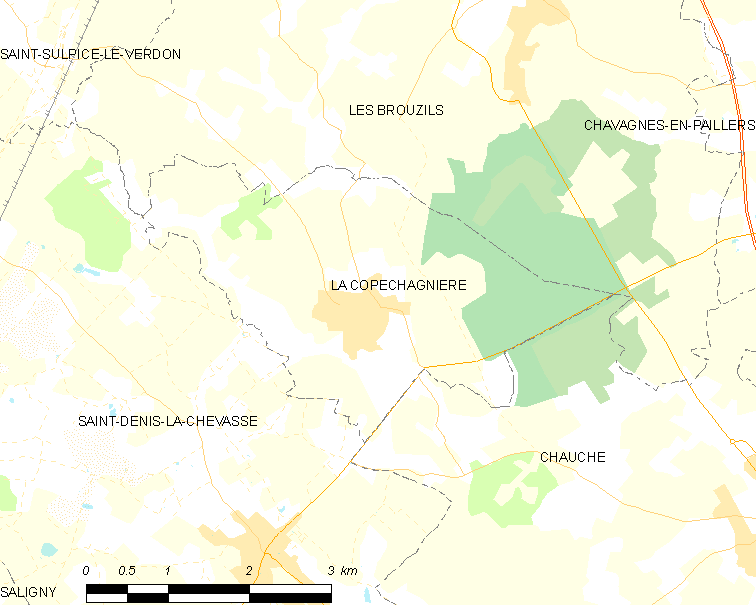 Map of French municipality La Copechagnière